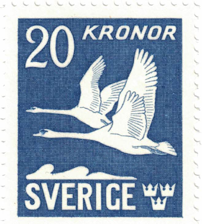 Swedish stamp 20 crowns, issued May 4, 1942